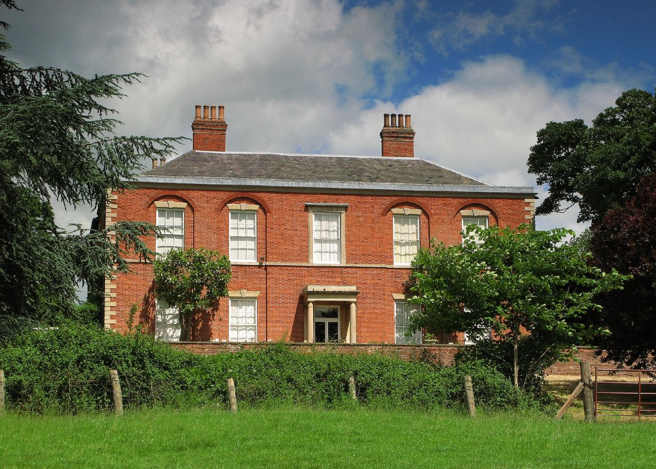 Stockerston Hall The hall,of 1792,stands beside the parish church,a little way above the village,which lies near to the Eye Brook , the Leicestershire/Rutland border here.